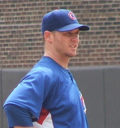 Koyie Hill of the Chicago Cubs during batting practice at Wrigley Field in Chicago, Illinois before a game against the Giants in 2007.